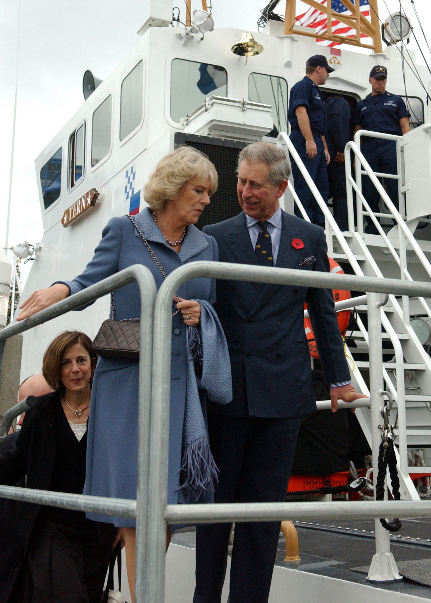 OAKLAND, Calif. (Nov 7, 2005) - Prince Charles and Dutchess of Cornwall make their way aboard the Coast Guard Cutter Tern. The Coast Guard provided the 87-foot patrol boat during the Royal Couple's transit from Jack London Square to the San Francsico Ferry Terminal. While aboard, they were able to tour the cutter and meet with Coast Guard crewmembers.